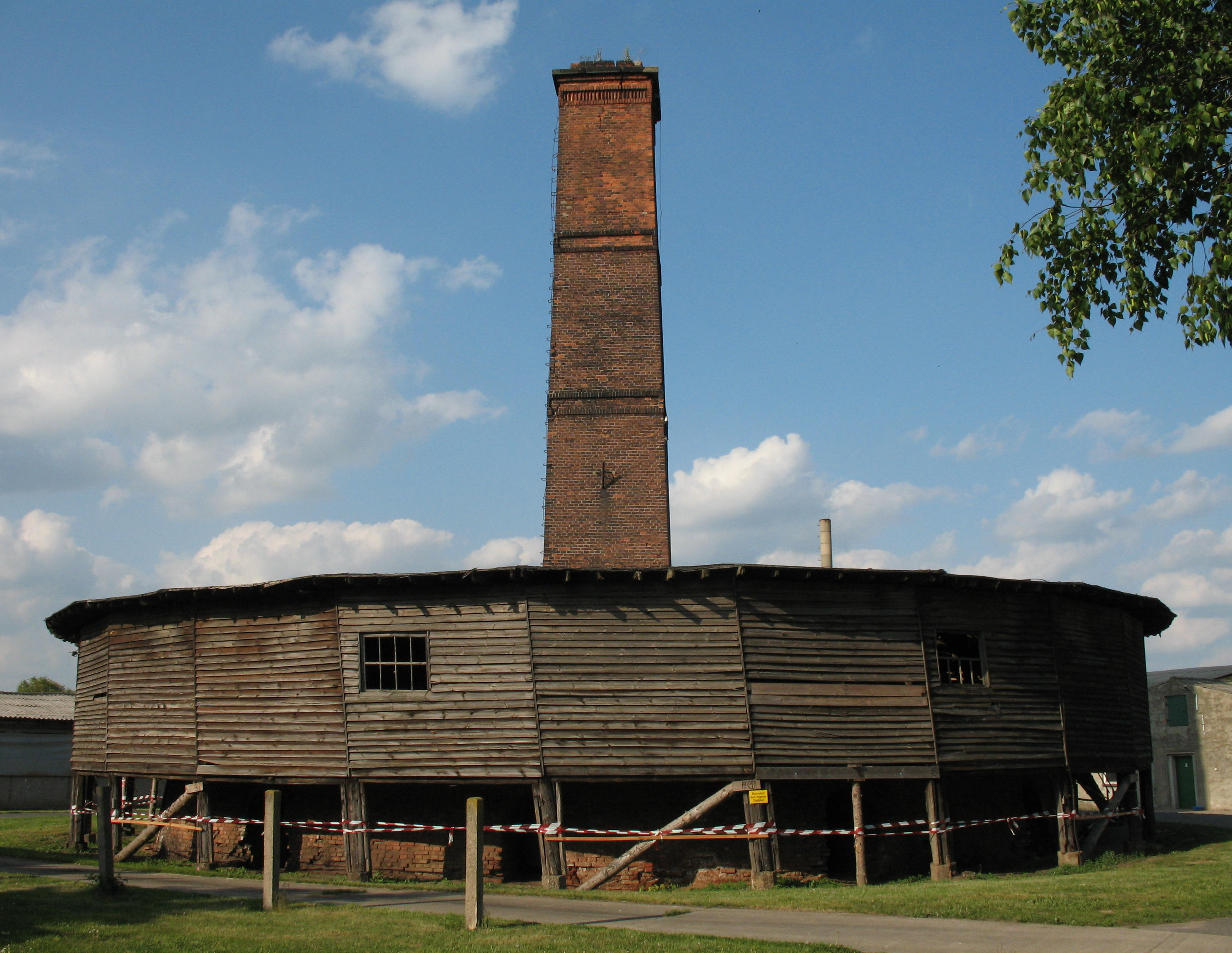 Ring kiln in Großtreben in Saxony, Germany